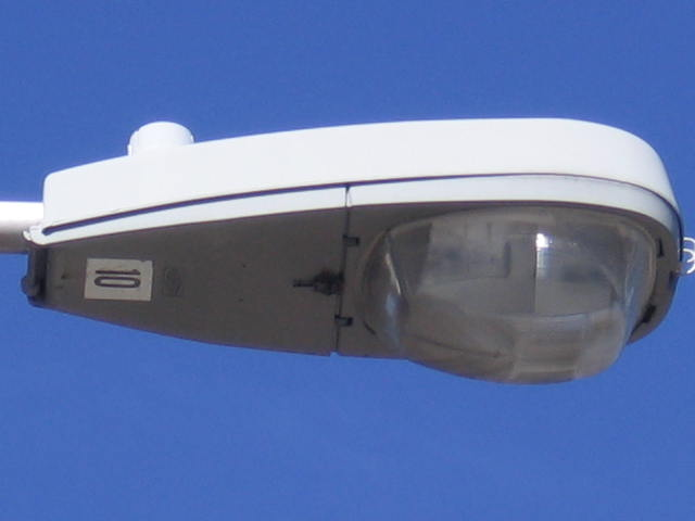 History of street lighting : Hubbel RMG semi cutoff (50–250 watts)